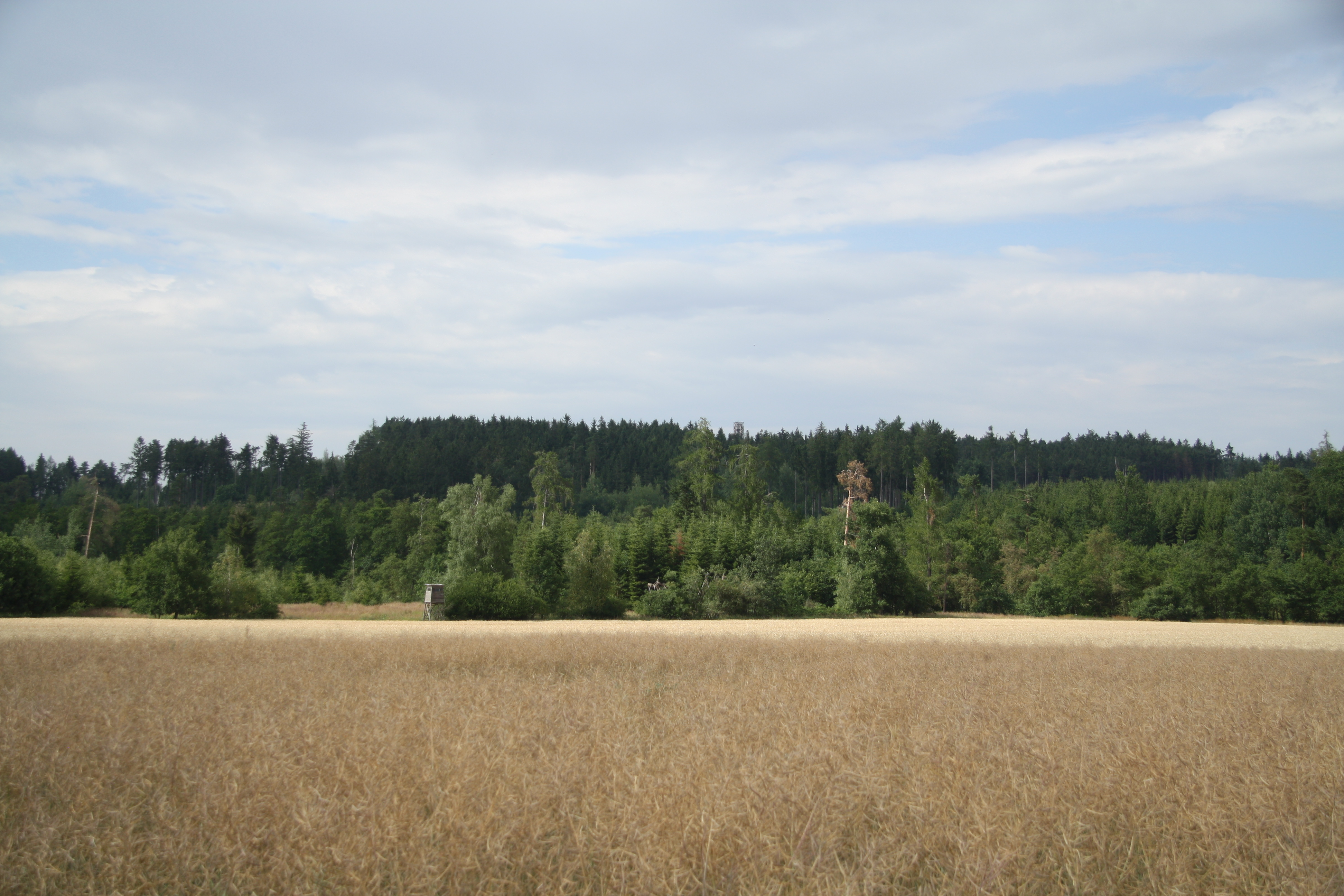 Overview of Pekelný kopec from road to Mikulovice, Třebíč District.